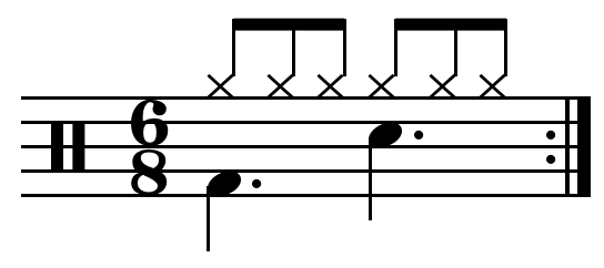 Compound duple drum pattern: divides two beats into three. Created by Hyacinth (talk) using Sibelius 5.